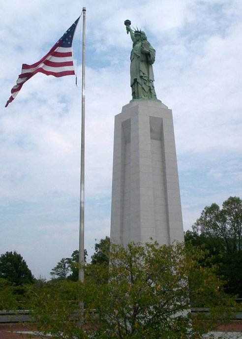 "Liberty Enlightening the World" replica (36 ft tall) in Vestavia Hills, Alabama. Cast in bronze in 1956 at the Société Antoine Durenne foundry in Somerville Haut Marne, France for placement atop the Liberty National Life Insurance Company Building in downtown Birminghamin 1958. It was relocated and placed on a 60 foot tall granite pedestal adjacent to Interstate 459 in 1989.